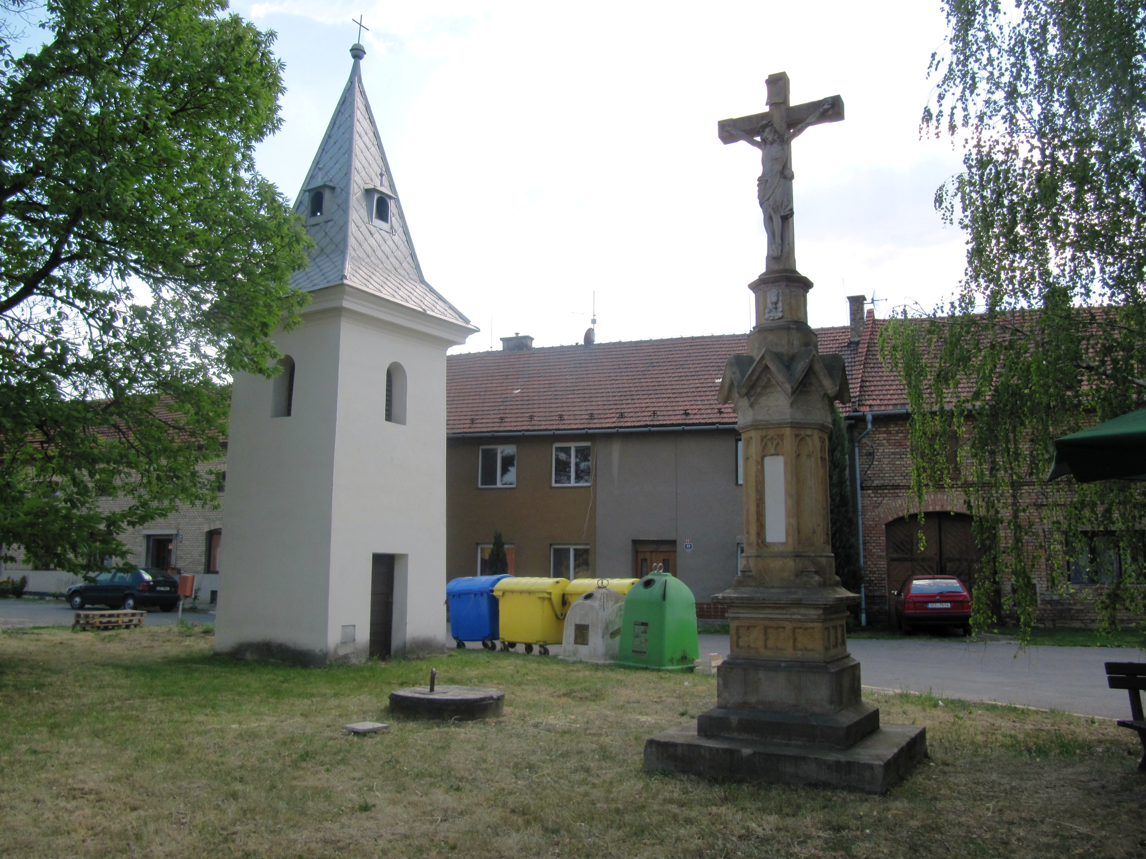 Kroměříž, Czech Republic, part Kotojedy. Common with crucifix and belfry.